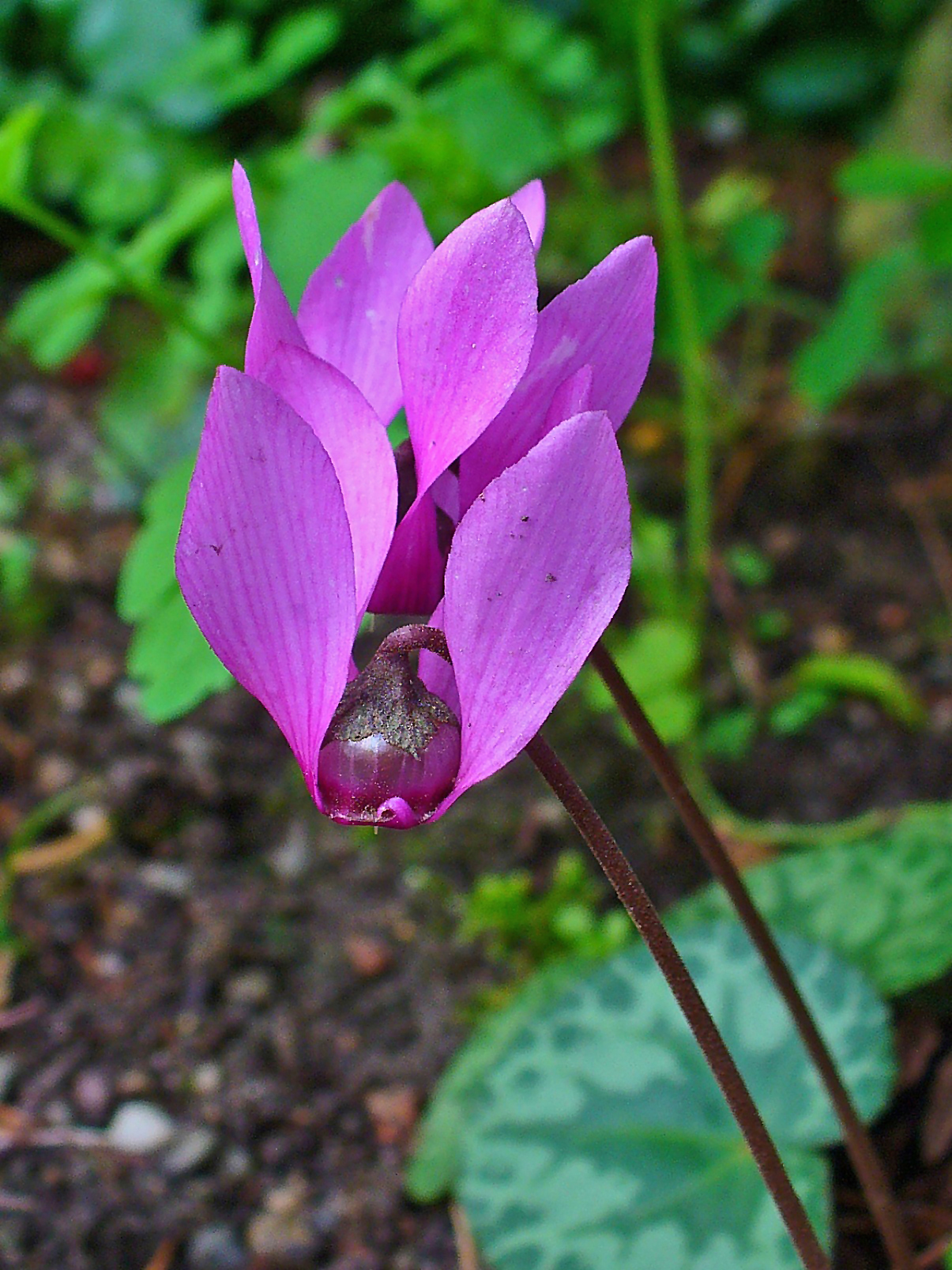 Cyclamen purpurascens, Myrsinaceae, Sowbread, flowers; Botanical Garden KIT, Karlsruhe, Germany. The fresh subterranean parts of the plant are used in homeopathy as remedy: Cyclamen (Cycl.)